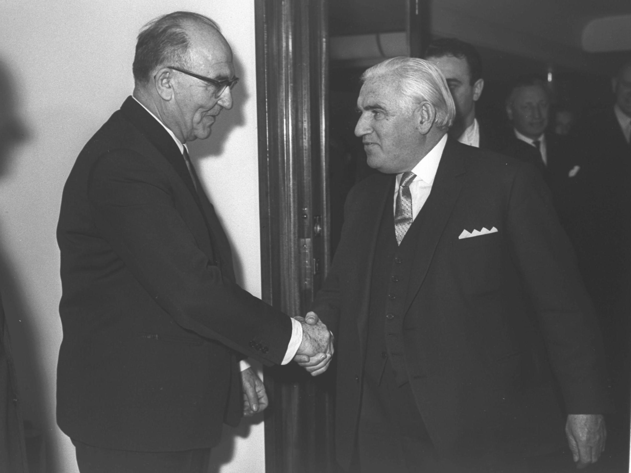 P.M. LEVY ESHKOL GREETING SIR ISAAC WOLFSON BEFORE A LUNCHEON AT THE SAVOY HOTEL IN LONDON.